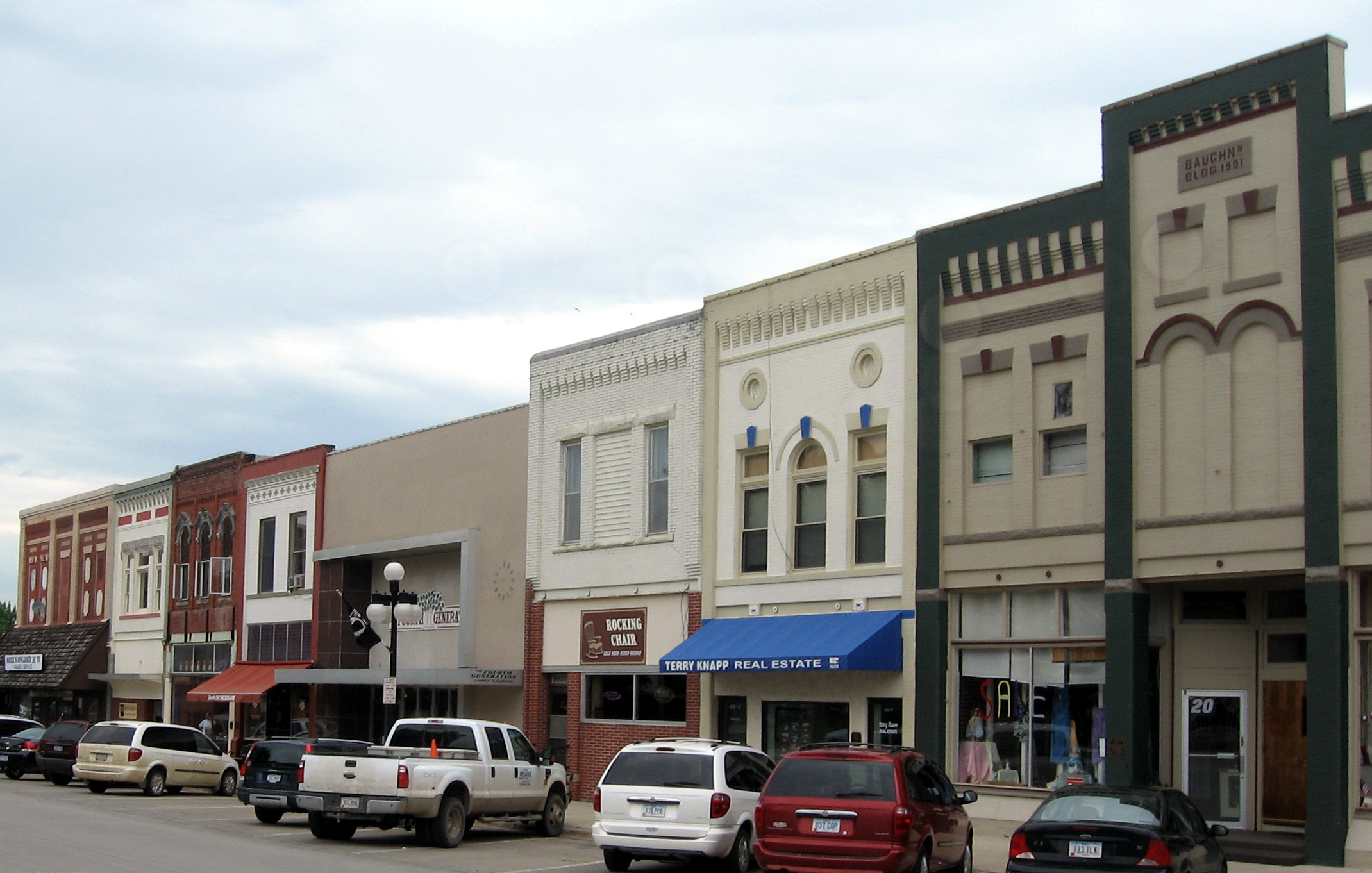 downtown Harlan, Iowa [Added by Nyttend:] These buildings are part of the Harlan Courthouse Square Commercial District, listed on the National Register of Historic Places